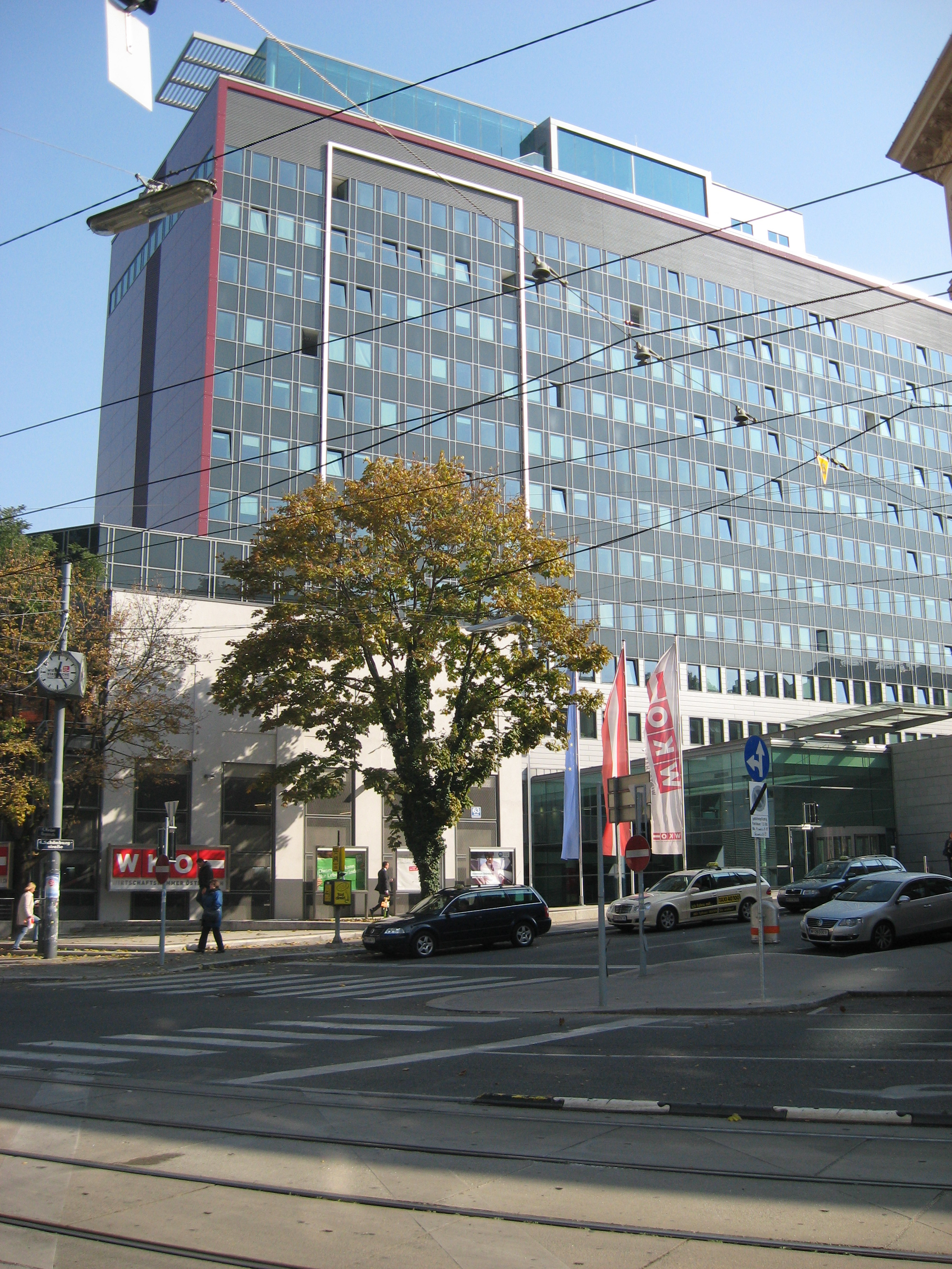 WKO Building, Wirtschaftskammer Oeterreich, formerly headquarters of Semperit corporation, built on the grounds of Palais Erzherzog Rainer. Address: Wiedner Hauptstrasse 63